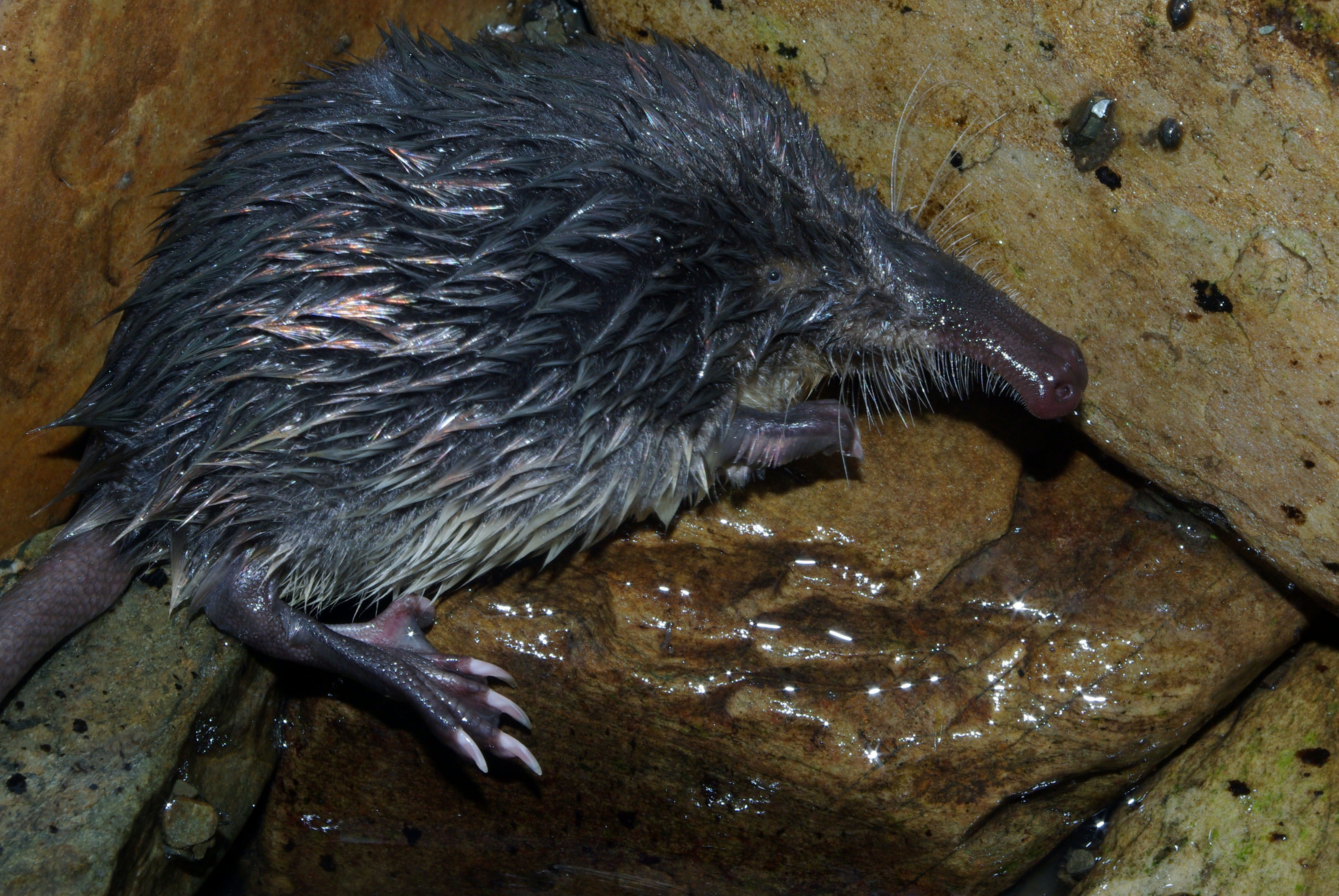 Pyrenean Desman (Galemys pyrenaicus). River Balboa, Burbia sub-basin, Sil basin. Balboa, León (Spain)